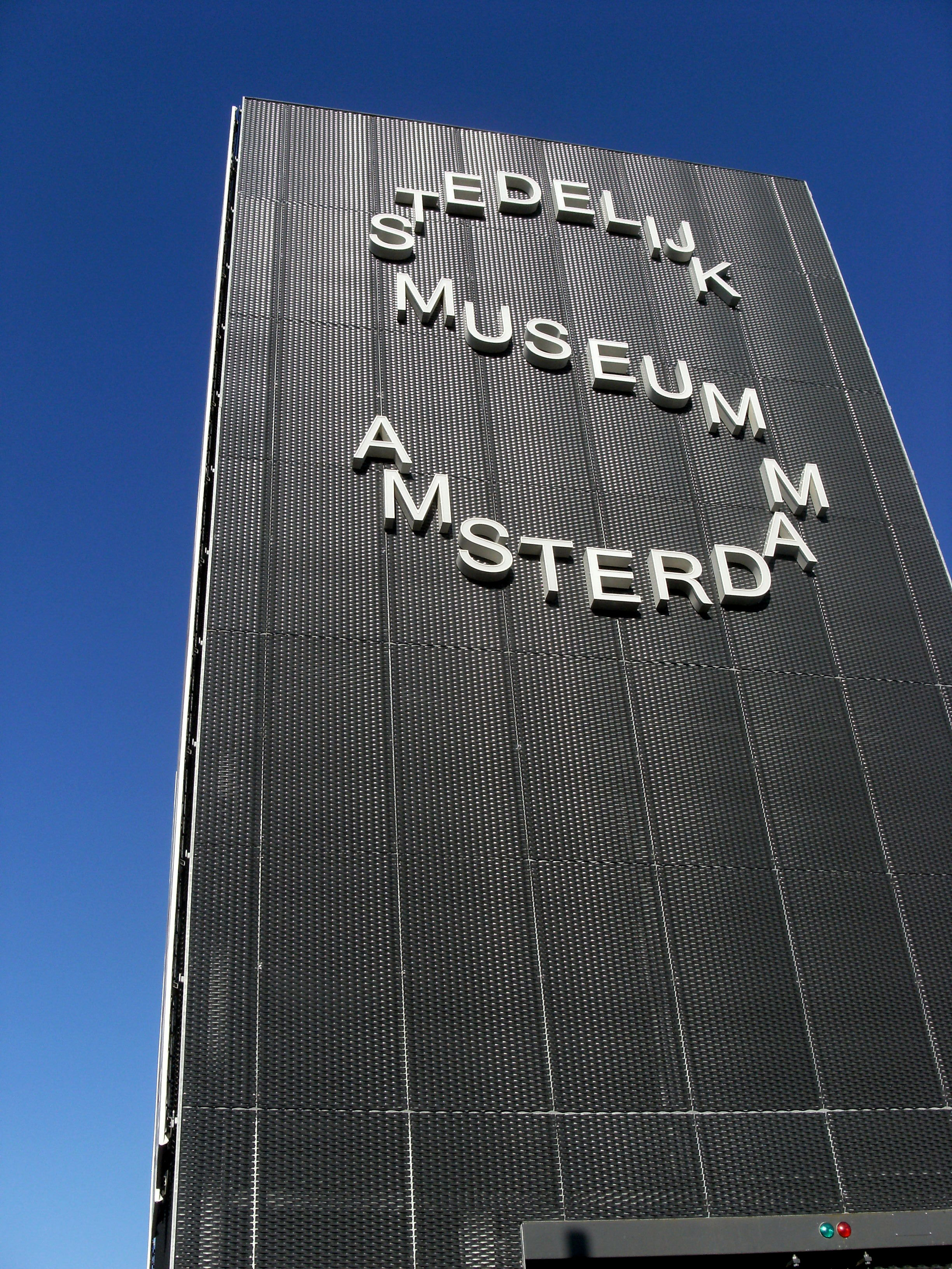 Part of the Stedelijk Museum Amsterdam near the Museumplein in Amsterdam